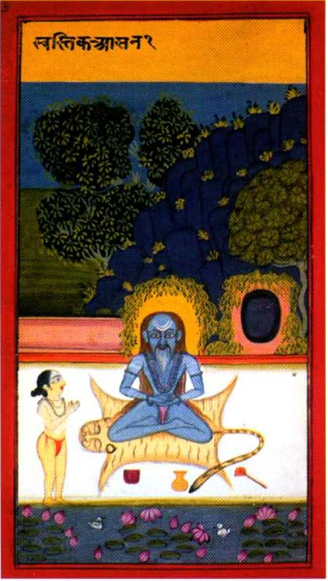 Illustration of Svastikasana yoga pose from manuscript of, 1830.